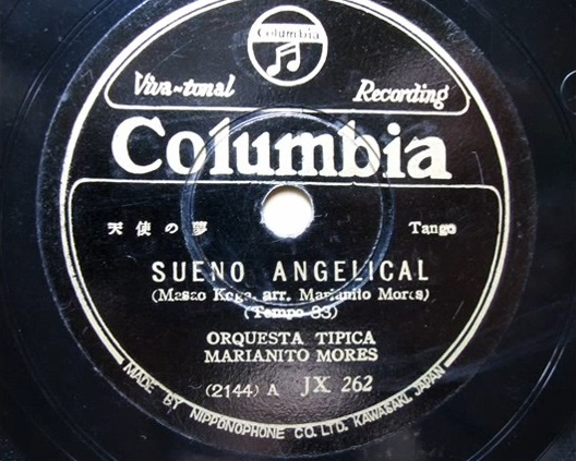 "Sueno Angelical" 天使の夢, (tango) de Masao Koga, arr. Marianito Mores. Record Orquesta Típica Marianito Mores, Columbia (2144) A JX 262, 1938, Buenos Aires.